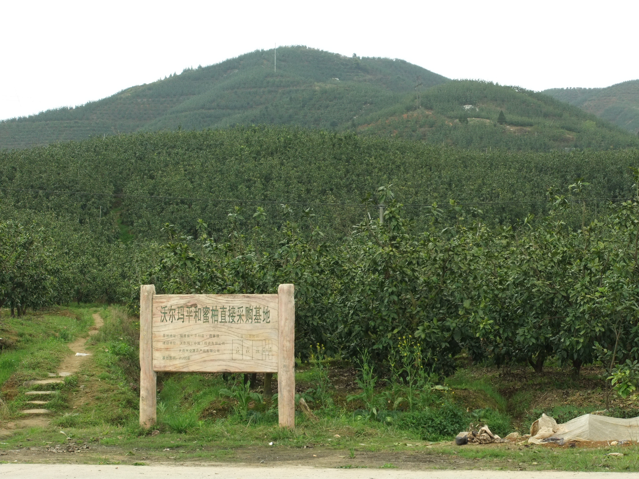 A pomelo orchard north-east of of Xiazhai Town (Pinghe County), somewhere south-east of Dapingqiao Bridge, with a sign that says that this is where Walmart China sources its pomelos.